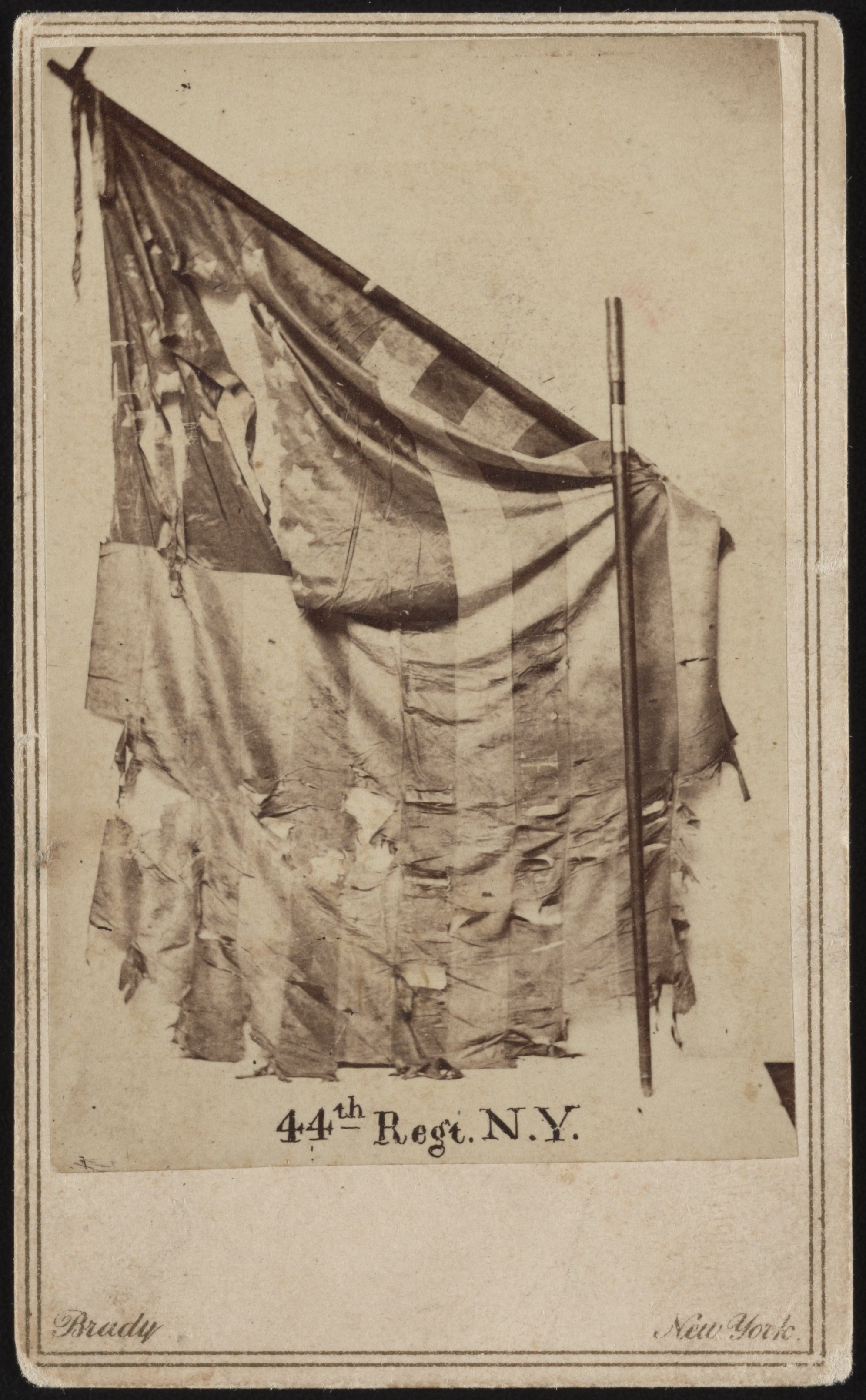 Title: Tattered Union flag of the 44th New York Infantry Regiment] / Brady, New York Abstract/medium: 1 photograph : albumen print on card mount ; mount 10 x 6 cm (carte de visite format)